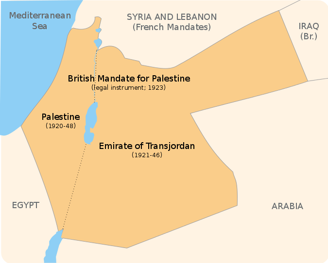 British Mandate of Palestine, 1920s. Note: Wasserstein, Bernard (2004). Israel and Palestine: Why They Fight and Can They Stop?, pp. 105–106."Palestine, therefore, was not partitioned in 1921–1922. Transjordan was not excised but, on the contrary, added to the mandatory area. Zionism was barred from seeking to expand there – but the Balfour Declaration had never previously applied to the area east of the Jordan. Why is this important? Because the myth of Palestine's 'first partition' has become part of the concept of 'Greater Israel' and of the ideology of Jabotinsky's Revisionist movement." Created by modification of public domain image Image:BritishMandatePalestine1920.jpg. Modifications consisted of enlarging the font of two words and converting to PNG.